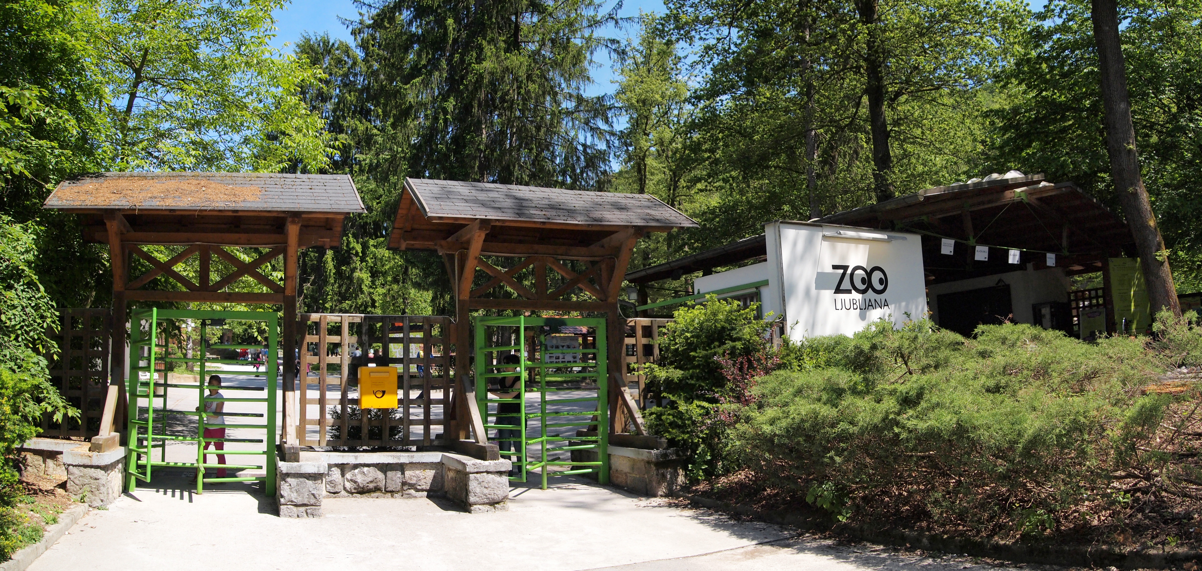 Exit of Ljubljana zoo, Slovenia. This photograph was taken with an Olympus E-PL1